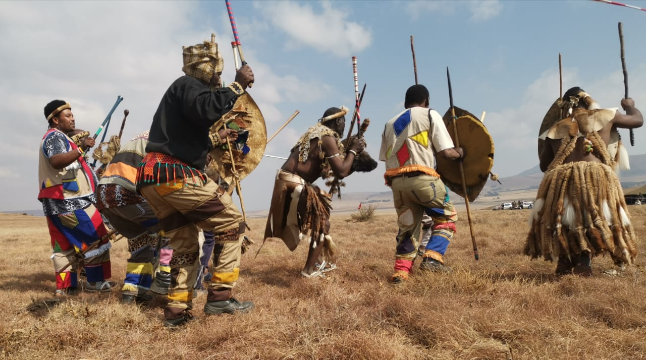 During a reenactment in Wakkerstroom South Africa, of a battle in 1881 during the First South African War, Zulu tribal leaders dance to welcome the arrival of Queen Victoria's carriage. This is an image with the theme "Africa on the Move or Transport" from: South Africa